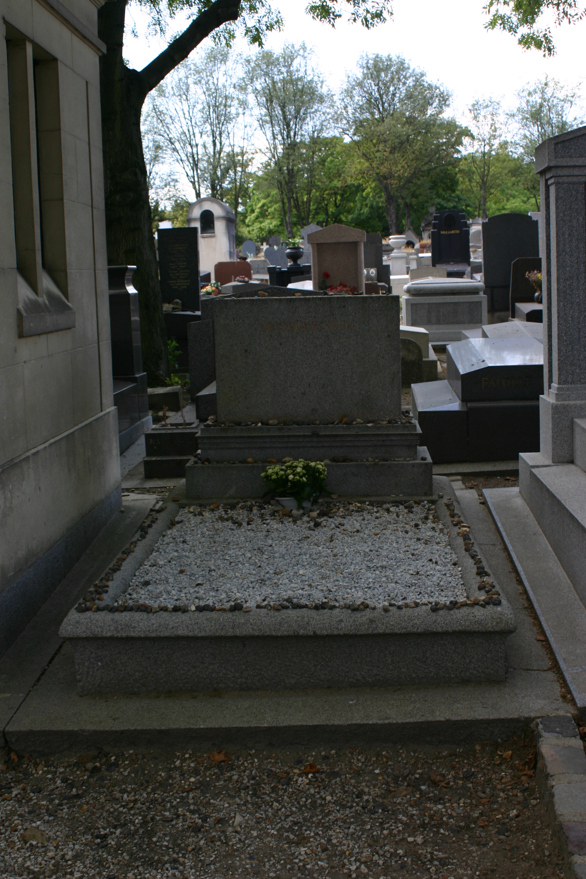 Gertrude Stein's tomb at Père Lachaise Cemetery, Paris.